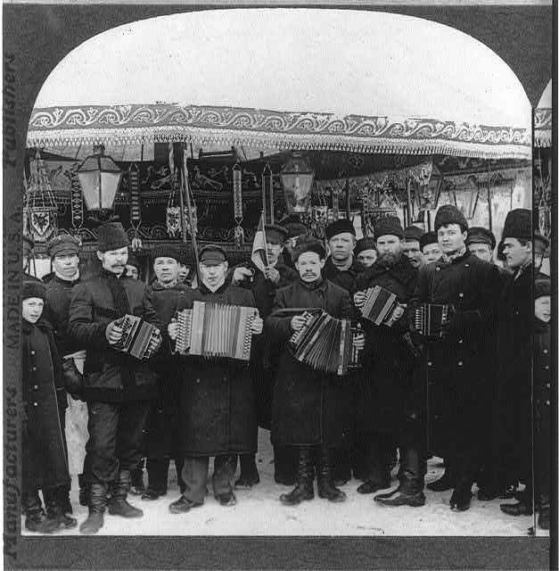 Musicians, Russian carnival, Petrograd: Five men with accordions. 1 photographic print on stereo card : stereograph.